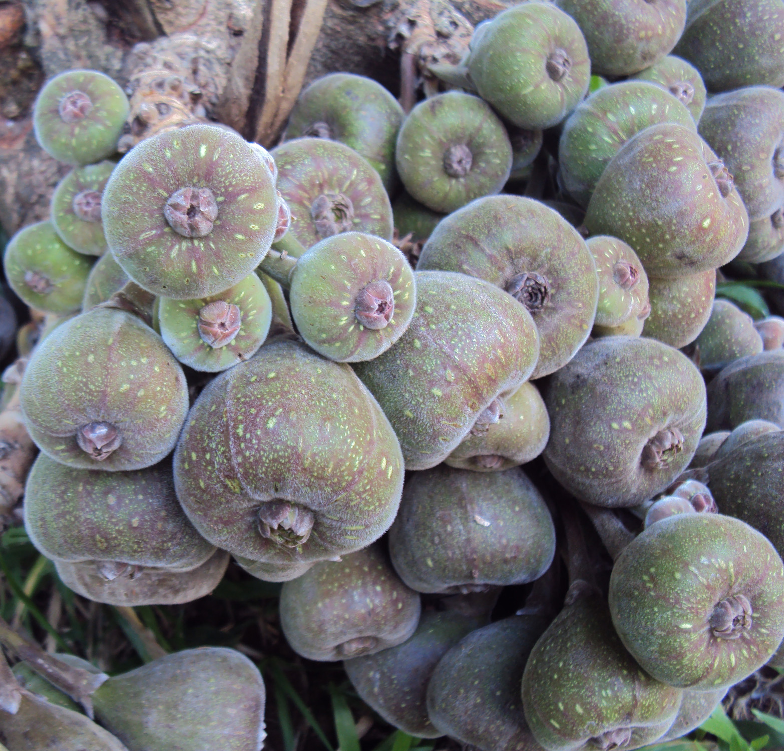 Ficus auriculata